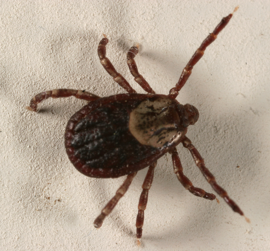 Dog tick